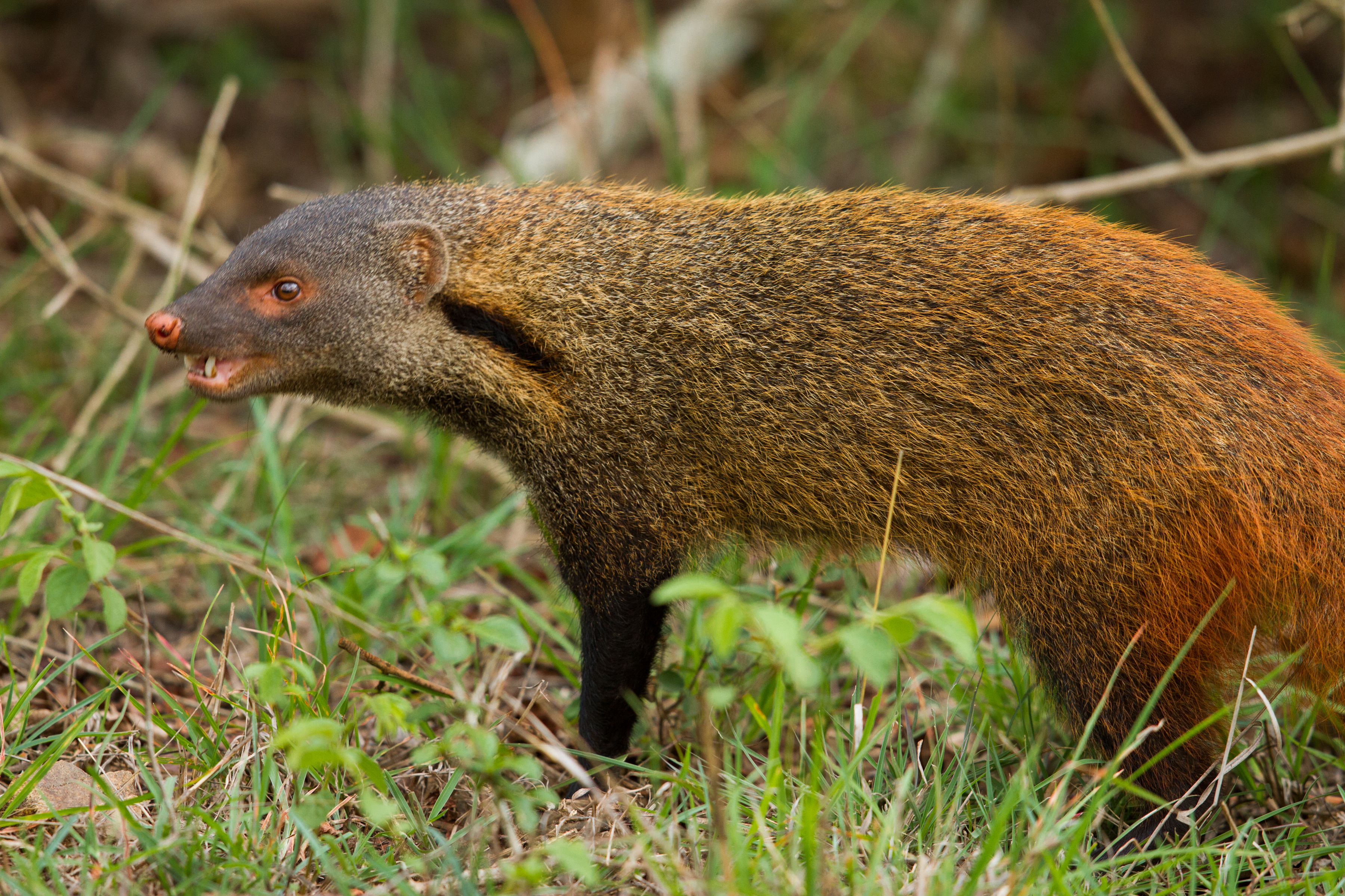 Stripe-necked mongoose (Herpestes vitticollis).